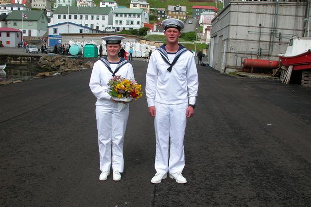 Royal visit in Vágur, Royal marines from the royal ship of Denmark Island 21-06 2005